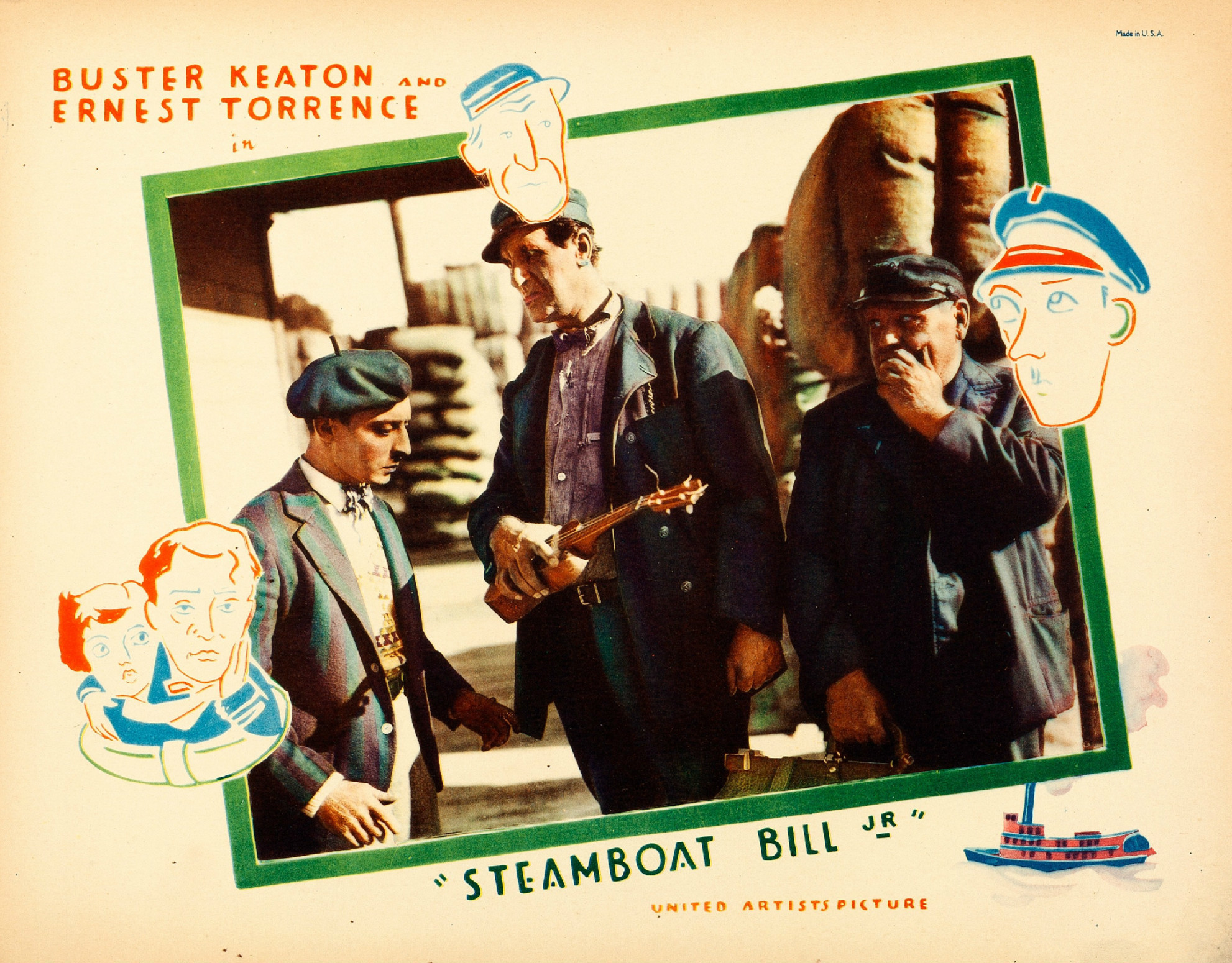 Lobby card for the American comedy film Steamboat Bill Jr. (1928). There are no copyright marks. At top right is Made in USA.